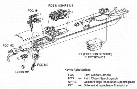 COSTAR Deployable Optical Bench Assembly